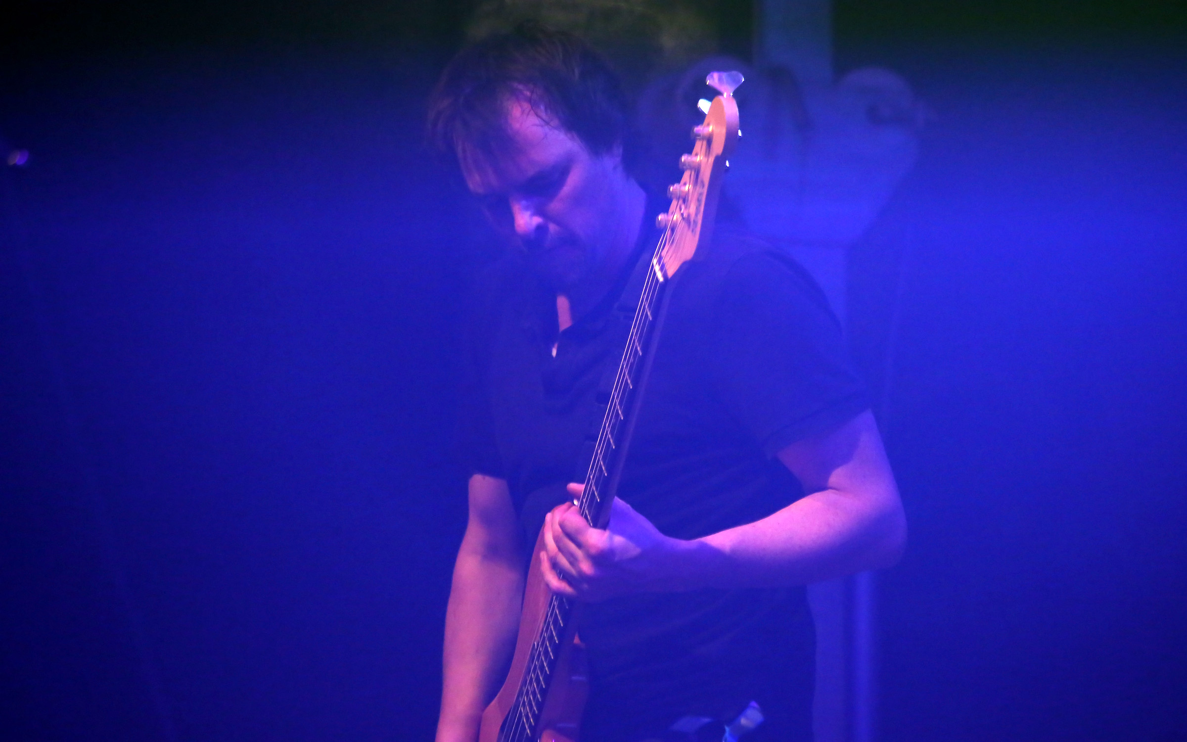 Sofa Surfers Soundsystem feat. Saedi, concert at Donaukanaltreiben 2013 in Vienna, Austria.